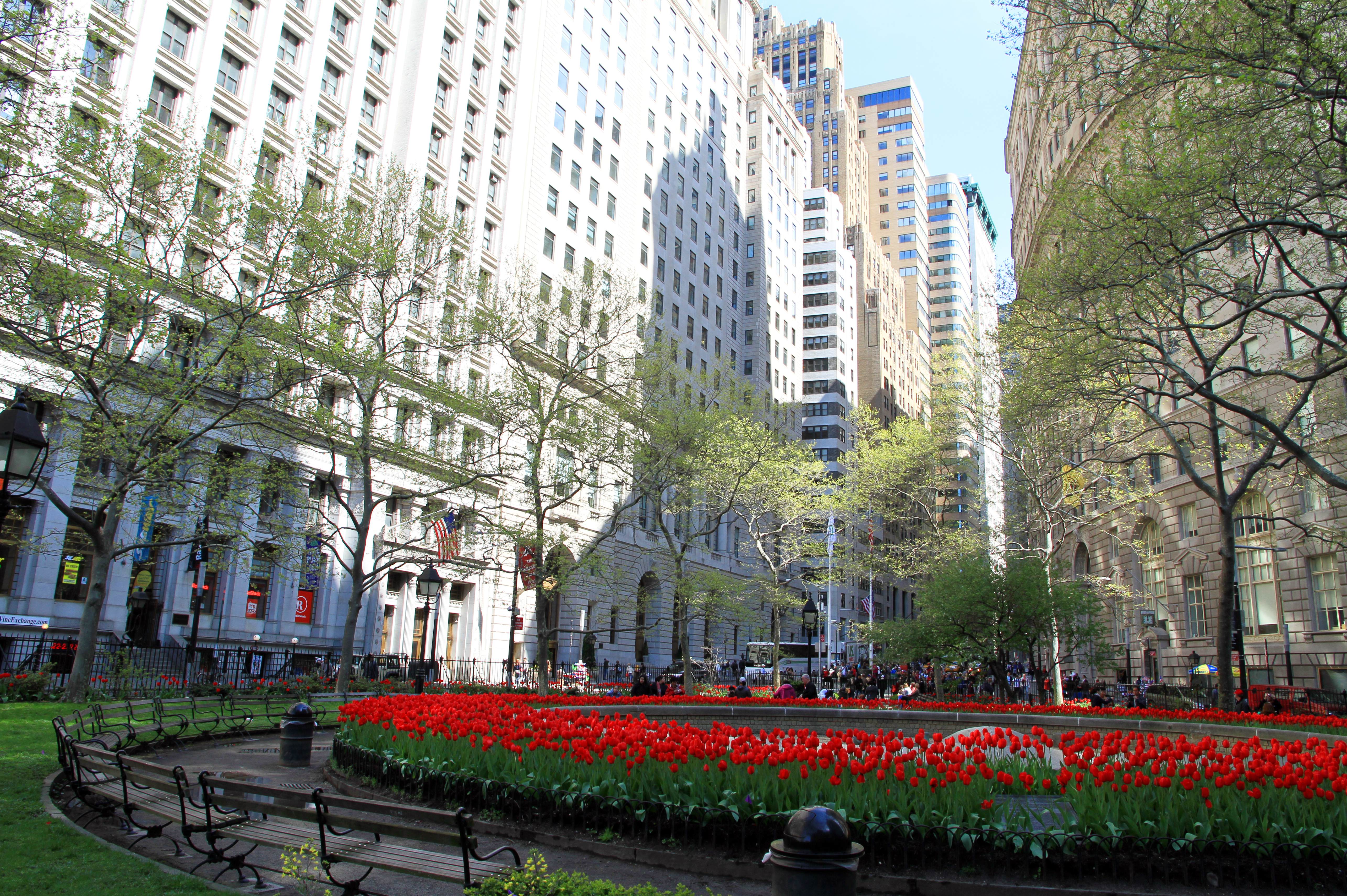 Bowling Green